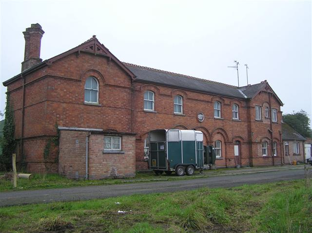 Aughnacloy Railway Station The plaque displays the date as 1887. It is located at the lower end of the town and is now used as a nursery school. Little evidence remains of the railway - more at